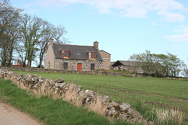 Millegin or Millegan The 1:50,000 map spells this Millegan, but the 1:25,000 uses the same spelling as the 1871 map. The house looks as if it has very recently been modernised.